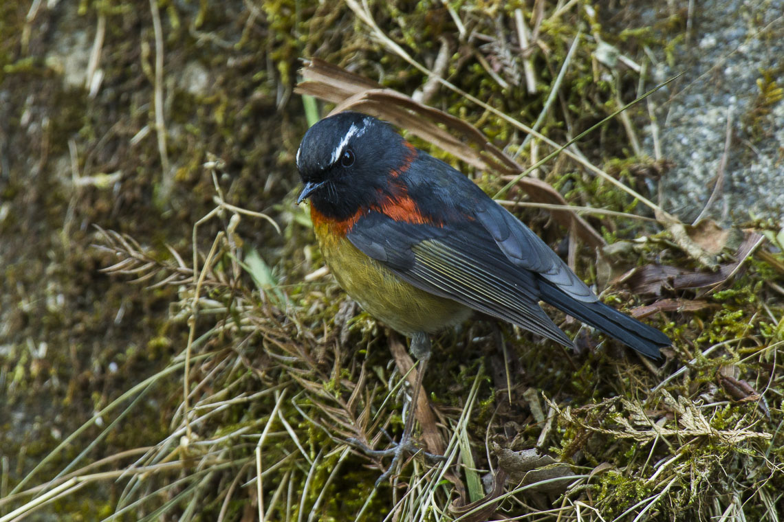 Collared Bush-Robin - Taiwan_S4E6646